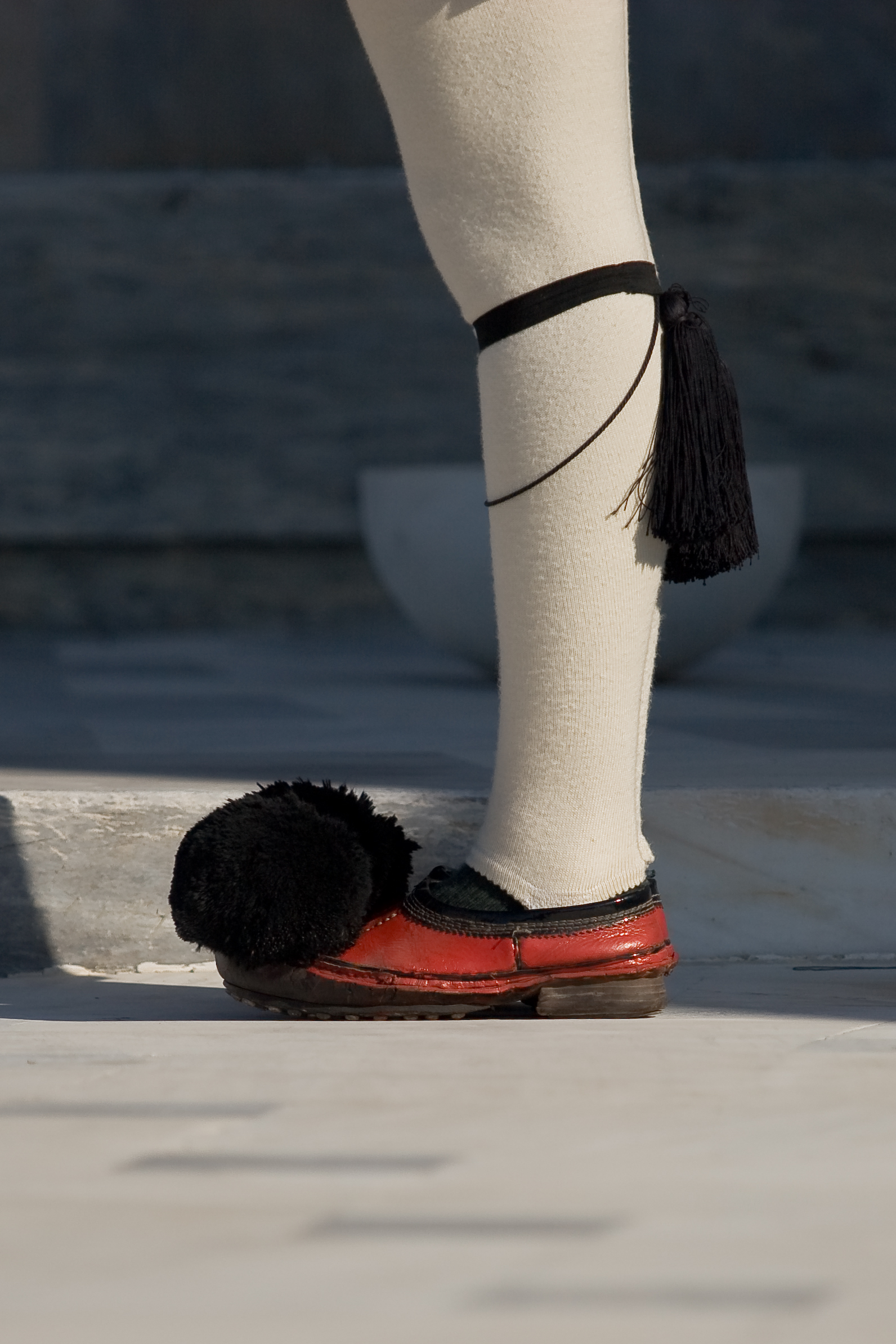 Detailed view of Evzone's distinctive red "tsarouhi" clogs and "kaltsodetes" garters as seen on Syntagma Square, Athens.